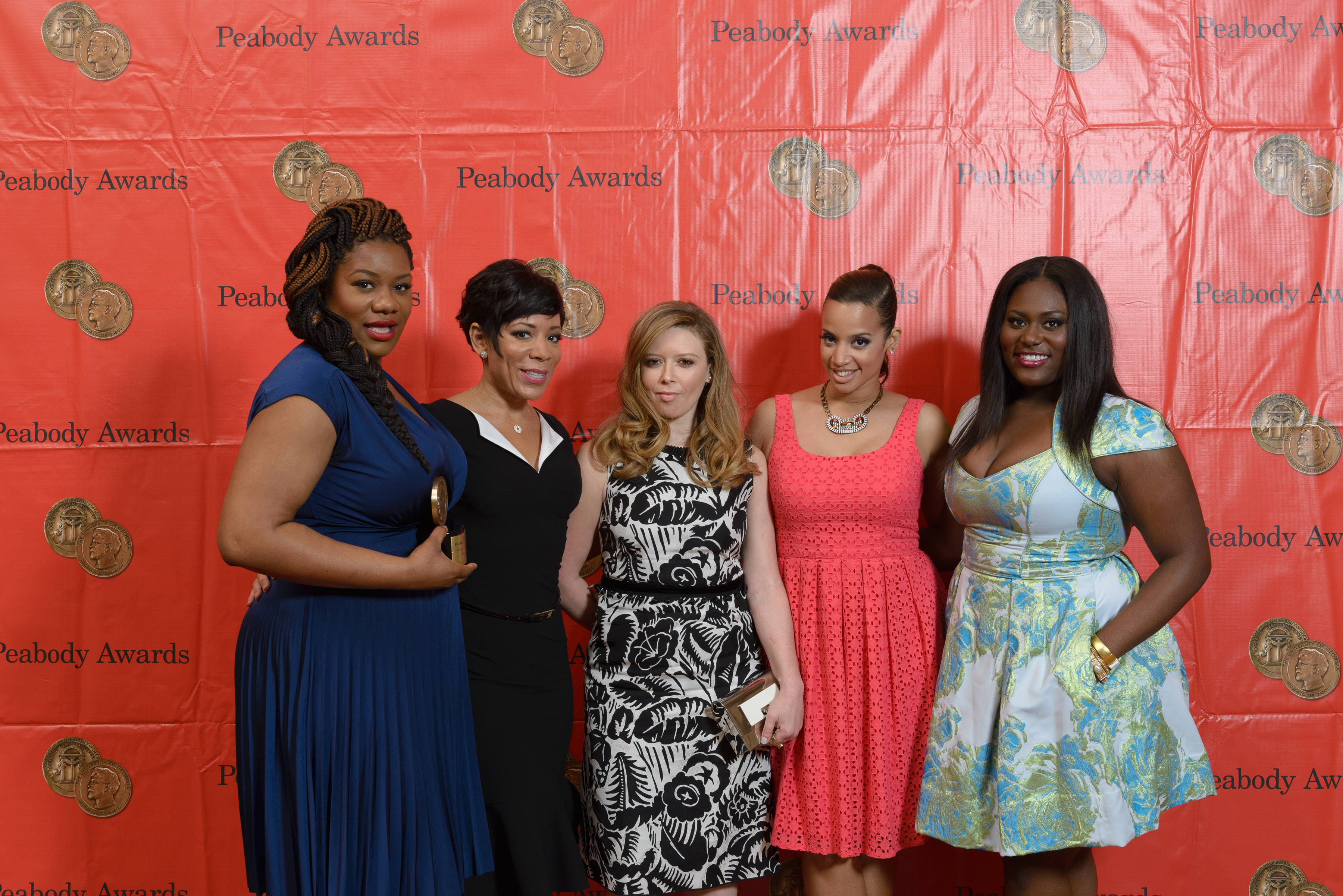 Orange is the New Black cast at the 73rd Annual Peabody Awards.